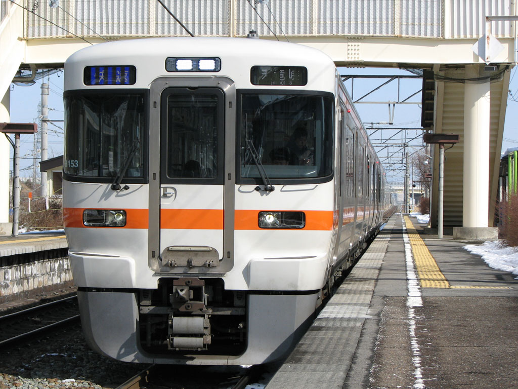 JR東海 313系電車 B153編成（稲荷山駅にて撮影）JR Central 313 series train type B153(Taken at Inariyama sta.)